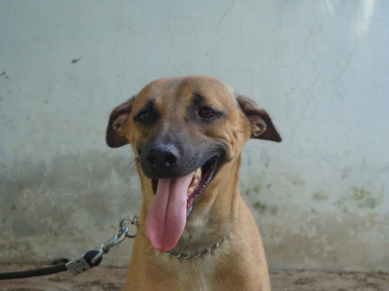 Male Kombai (Indian Bear Hound)